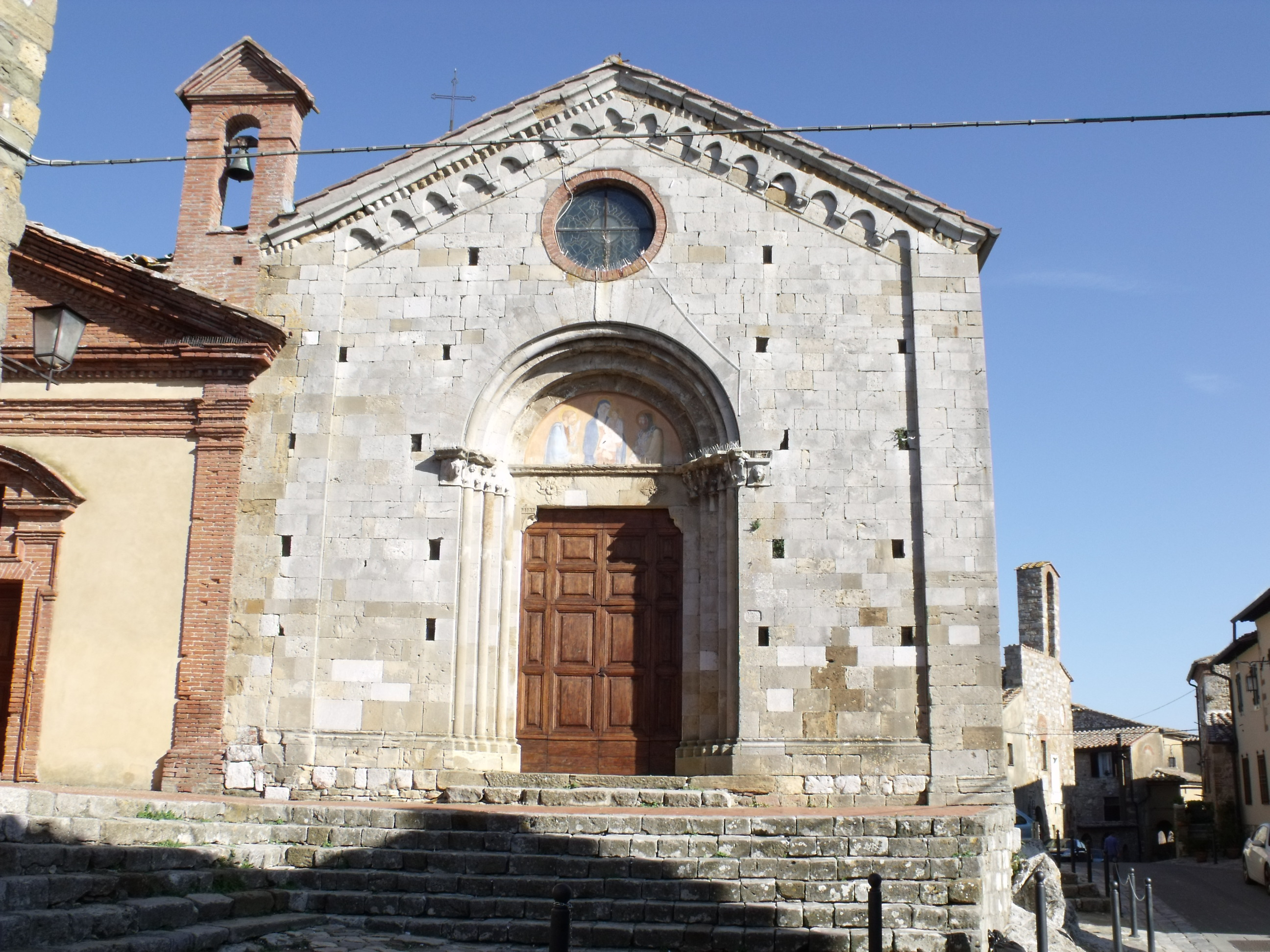 Church / Chiesa di San Leonardo in Montefollonico, Torrita di Siena, Province of Siena, Tuscany, Italy